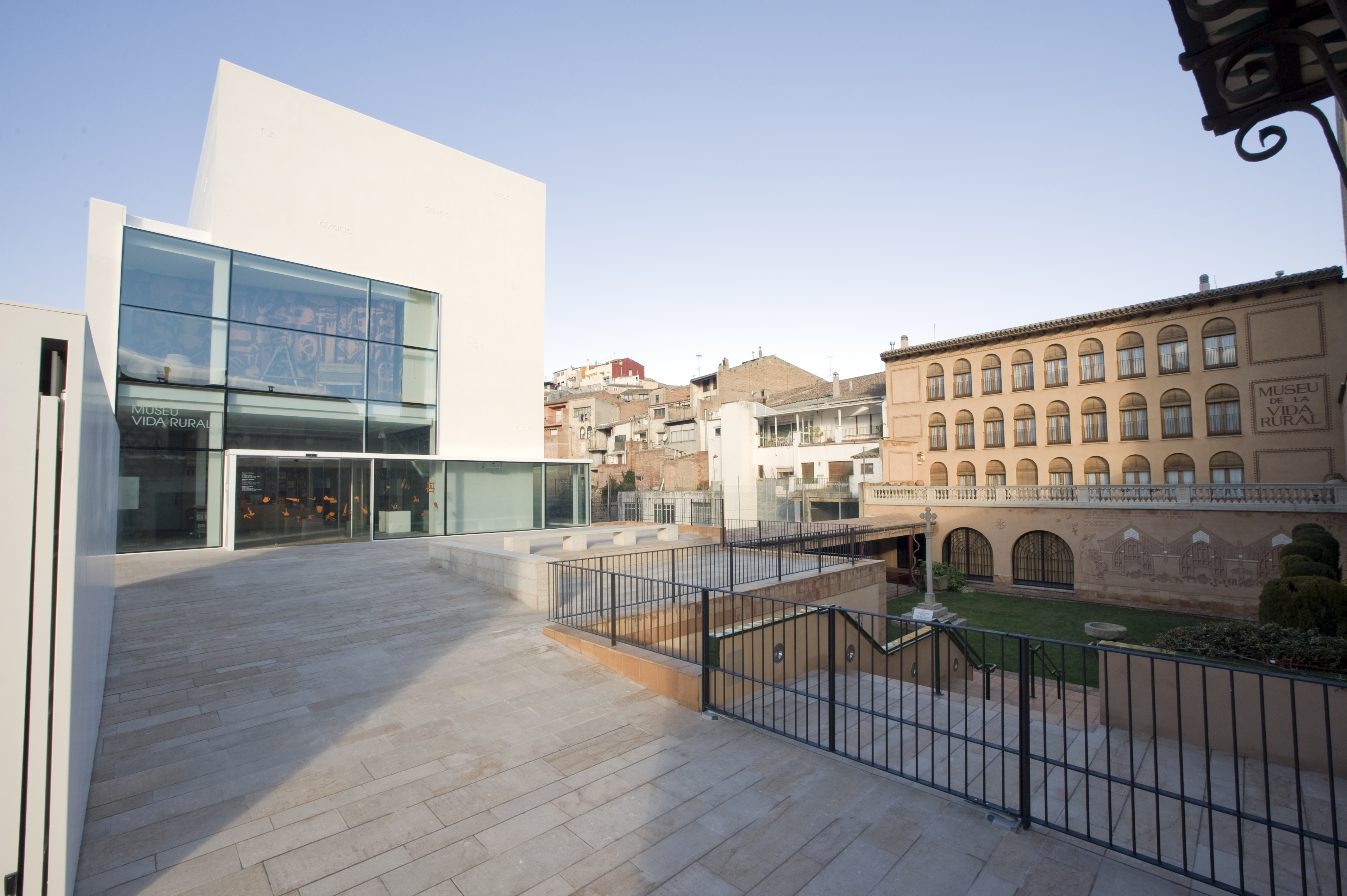 Two buildings of the Museum of Rural Life in L'Espluga de Francolí, Catalonia, Spain.